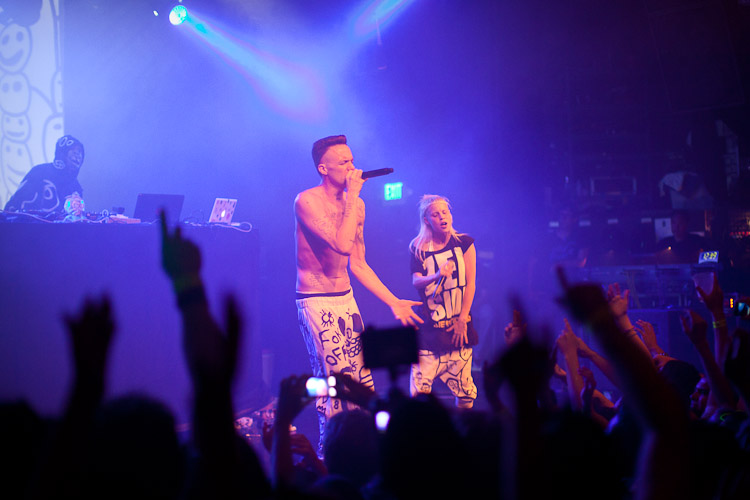 Die Antwoord (Ninja, Yo-Landi Vi$$er and DJ Hi-Tek) perform to a sold out crowd at the historic El Rey Theatre in Los Angeles, CA on July 17th, 2010.